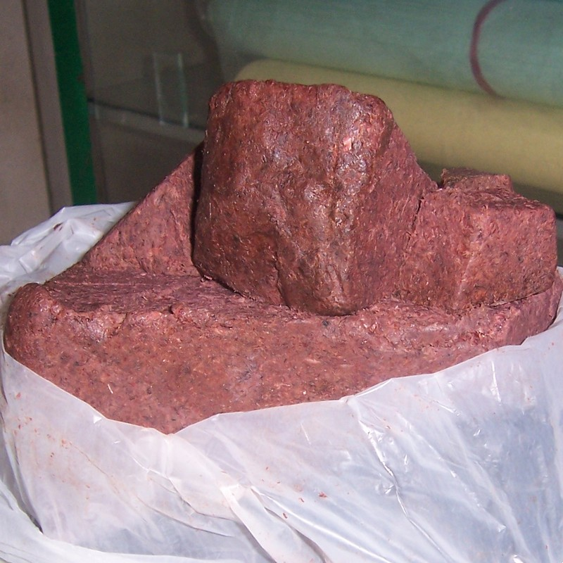 shrimp paste original from lombok island